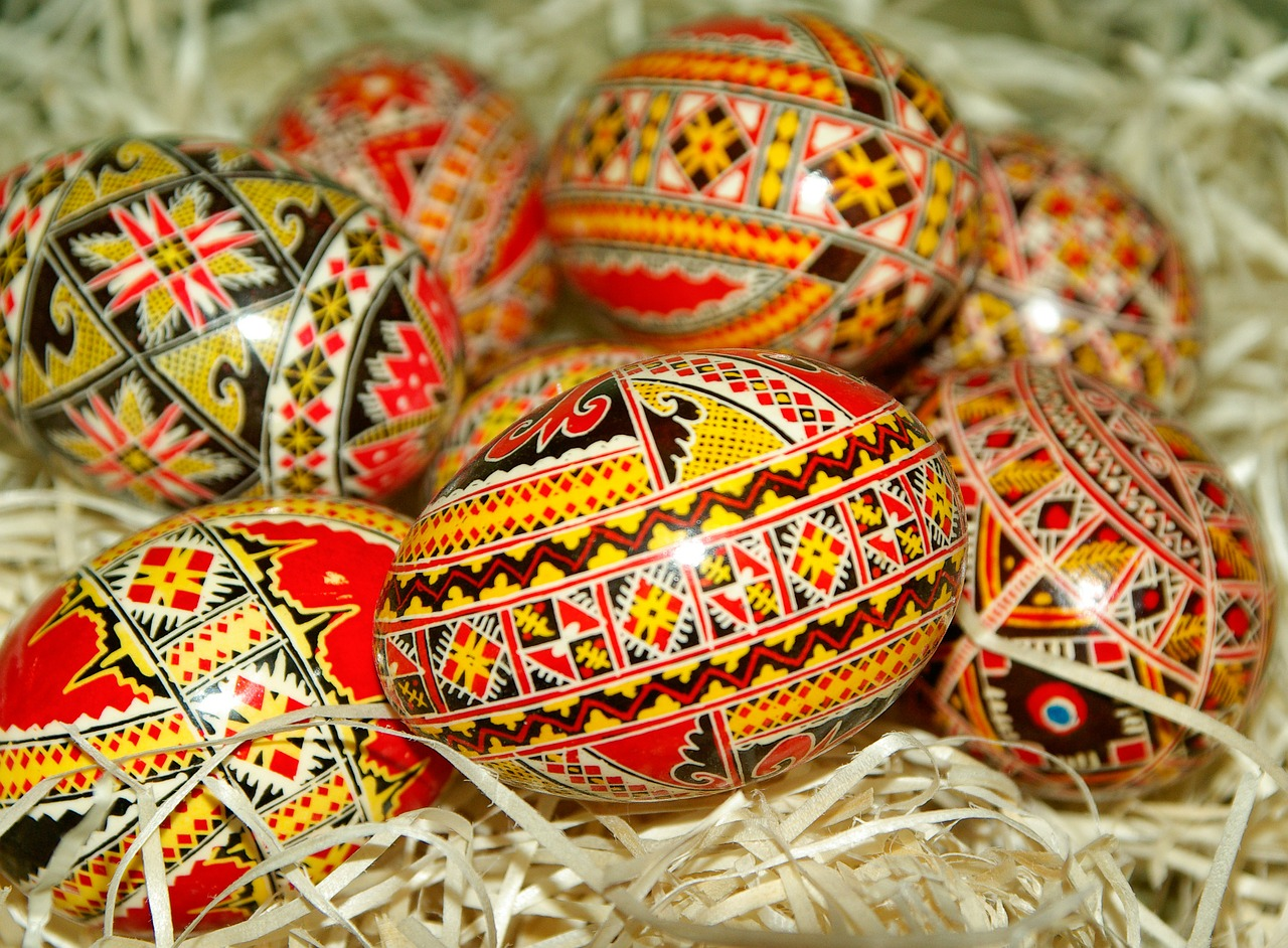 Black, yellow, and red painted Easter eggs from Romania. Also known as Pisanki.